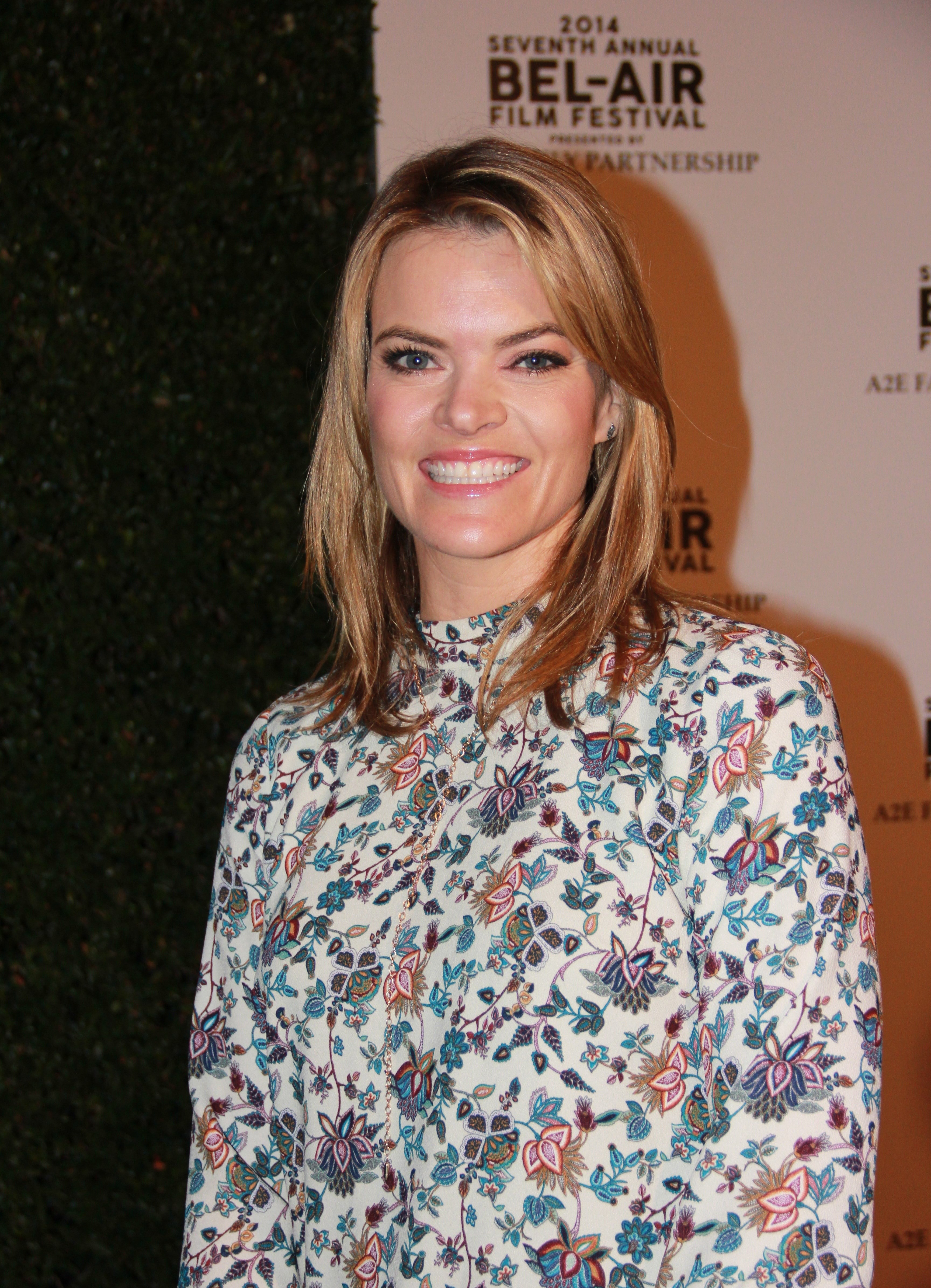 Missi Pyle at the 2014 Seventh Annual Bel Air Film Festival Presented by the A2E Family Partnership at the Saban Theatre in Beverly Hills.